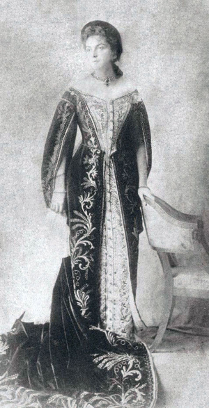 Mary, Princess Eristavi dressed as a Lady in Waiting of Empress Alexandra of Russia.